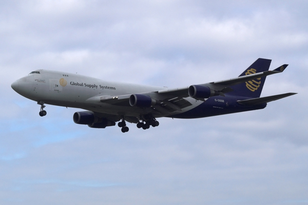 Global Supply Systems Boeing 747-47UF(SCD) G-GSSB